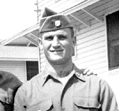 Ohio National Guard Sergeant and famed NFL Football player and coach Don Shula at Camp Polk, Louisiana in 1952.